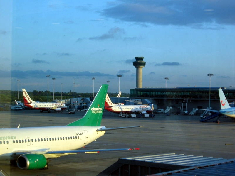 London Stansted Airport (STN), England